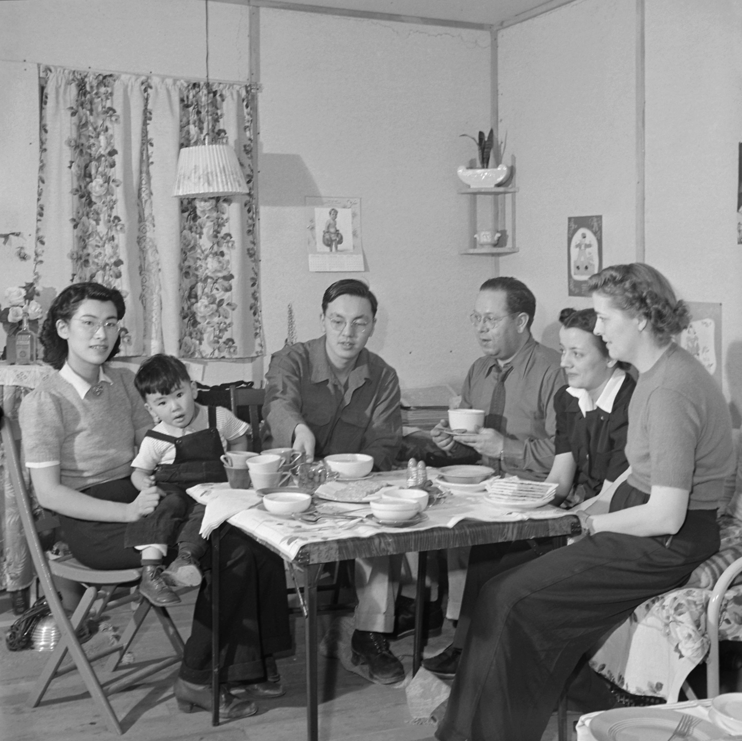 Scope and content: The full caption for this photograph reads: Heart Mountain Relocation Center, Heart Mountain, Wyoming. In his barracks home at Block 7 - 21, Bill Hosokawa and his wife Alice serves oyster stew in an evening's visit with the members of the War Relocation Authority appointed personnel. Left to right is Julona Steinheider, High School Mathematics Teacher; Margaret Jensen, Center Librarian; Vaughn Mechau, Reports Officer; Bill, his son Mike and his wife, Alice. (This appears to have been written from a flipped image, but there's plenty of signs - the hands and watches being appropriate for right-handed people, and the calendar in the background, while not legible, looking more appropriate as it is now than in a mirror flip, that indicates this arrangement is correct).